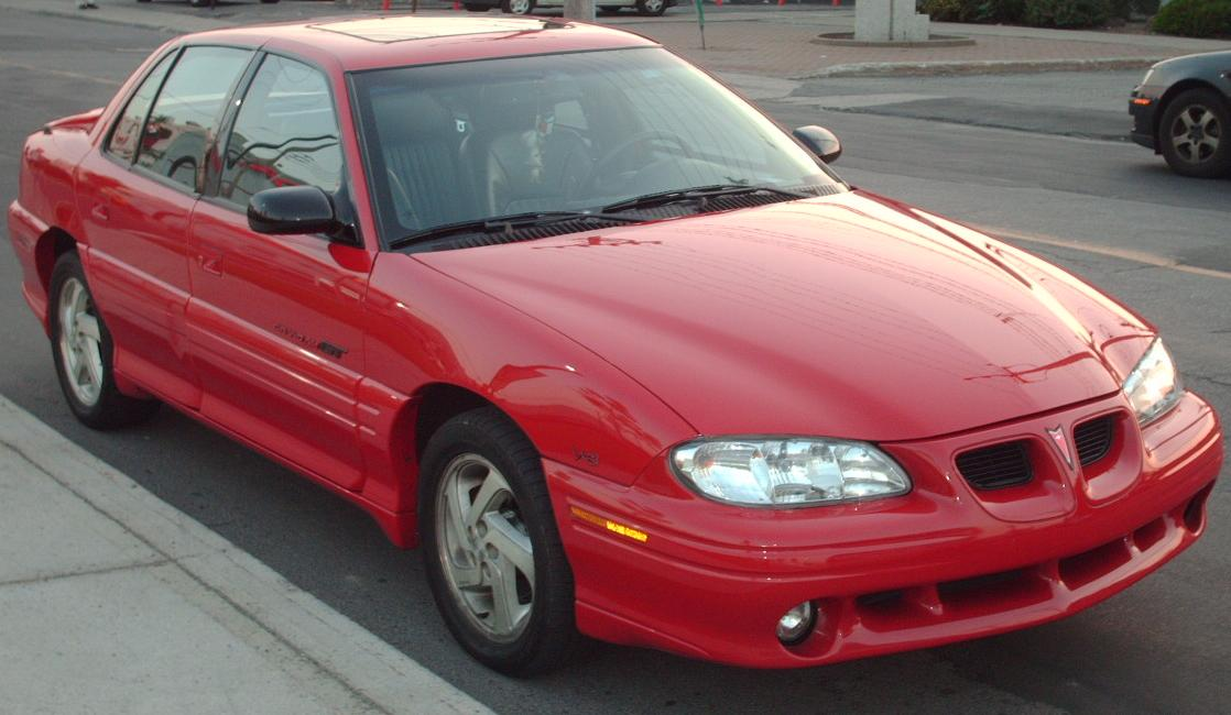 1996-1998 Pontiac Grand Am GT photographed in Montreal, Quebec, Canada.